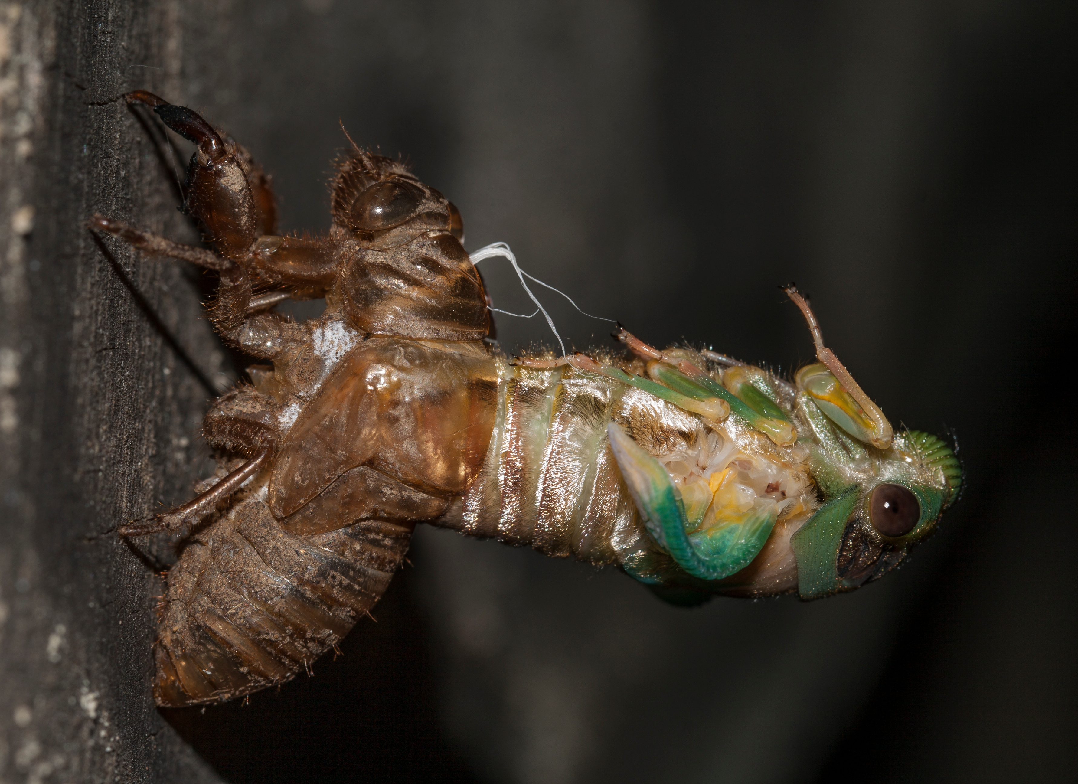 Arunta perulata cicada emerging as an adult from its nymphal stage (series includes different cicadas of the same species).